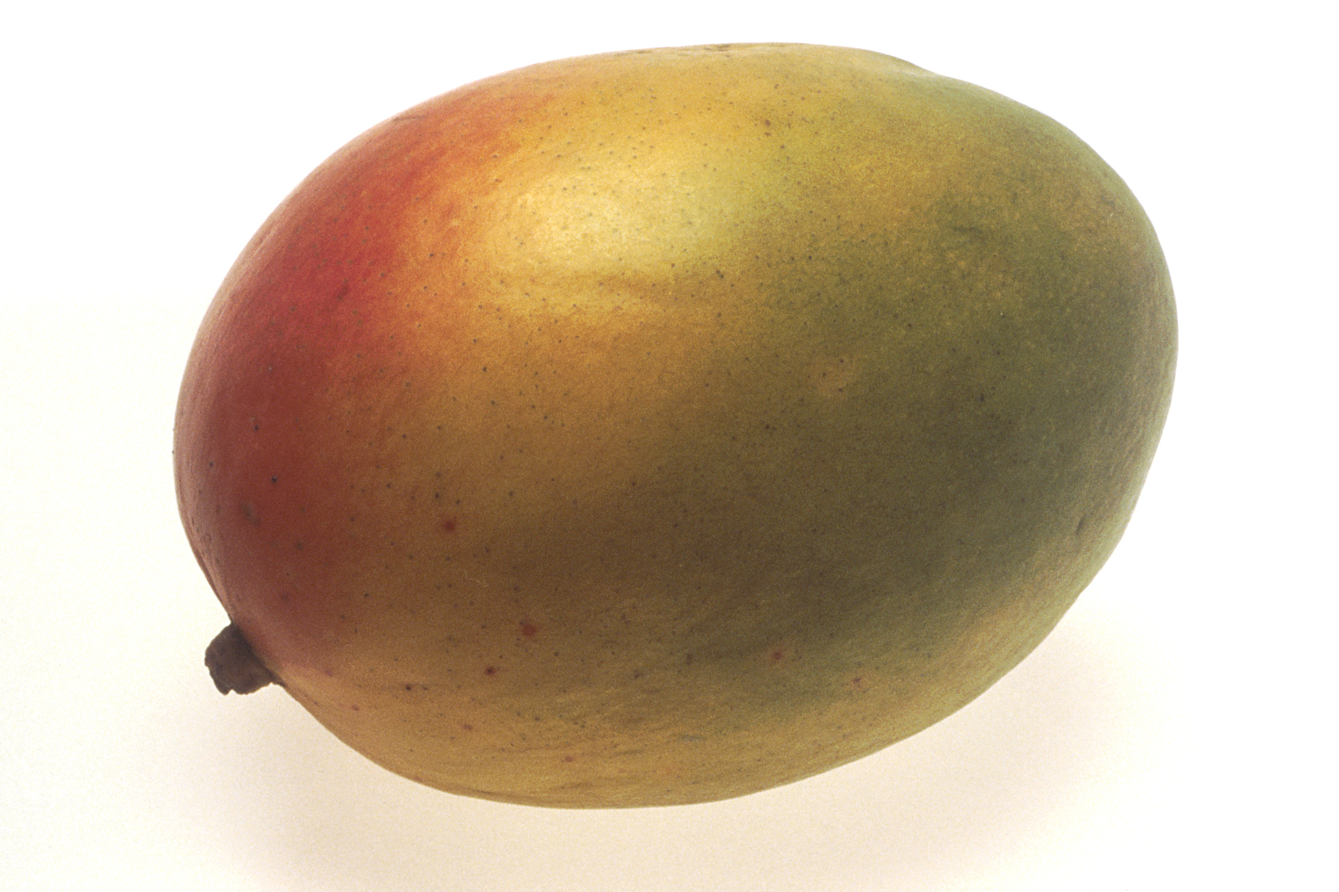 Title Mango Description A whole ripe mango. Topics/Categories Food and Drink Type Color, Photo Source National Cancer Institute